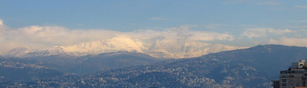 Mount Sannine in the Mount Lebanon Range — as seen from Beirut. Photographed by BlingBling10